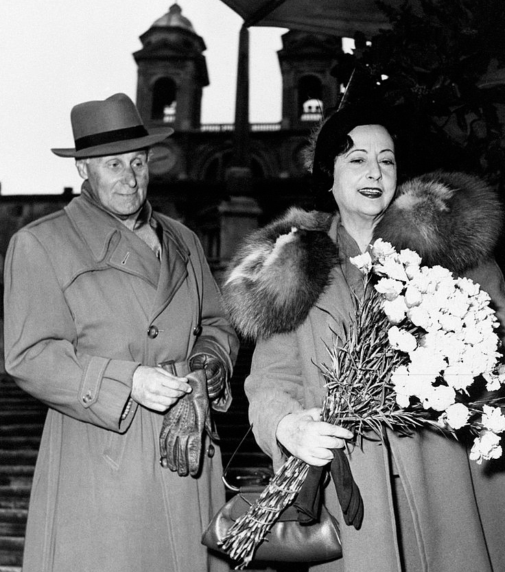 Italian piano player and actress Rina De Liguoro (Elena Caterina Catardi) and her husband, Italian actor and director Wladimiro De Liguoro di Presicce standing at the foot of the staircase of Trinità dei Monti. Rome, 17th January 1958.